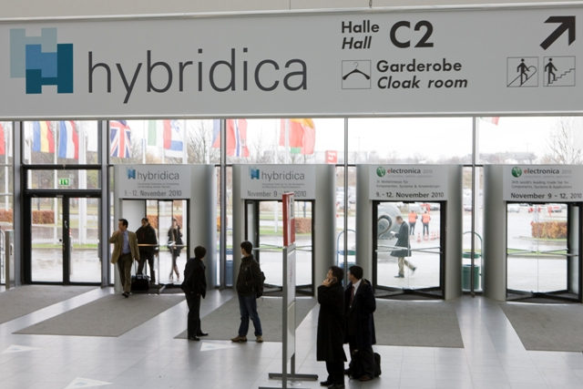 Entrance of hybridica 2008, Munich, Germany